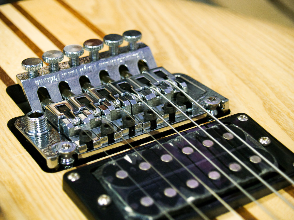 Floyd Rose system and a humbucker pickup